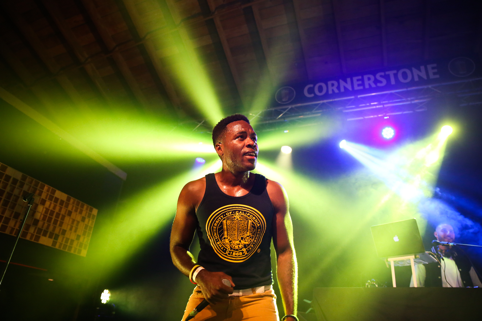 Call Me Ace performing at Cornerstone Berkeley in August 2018